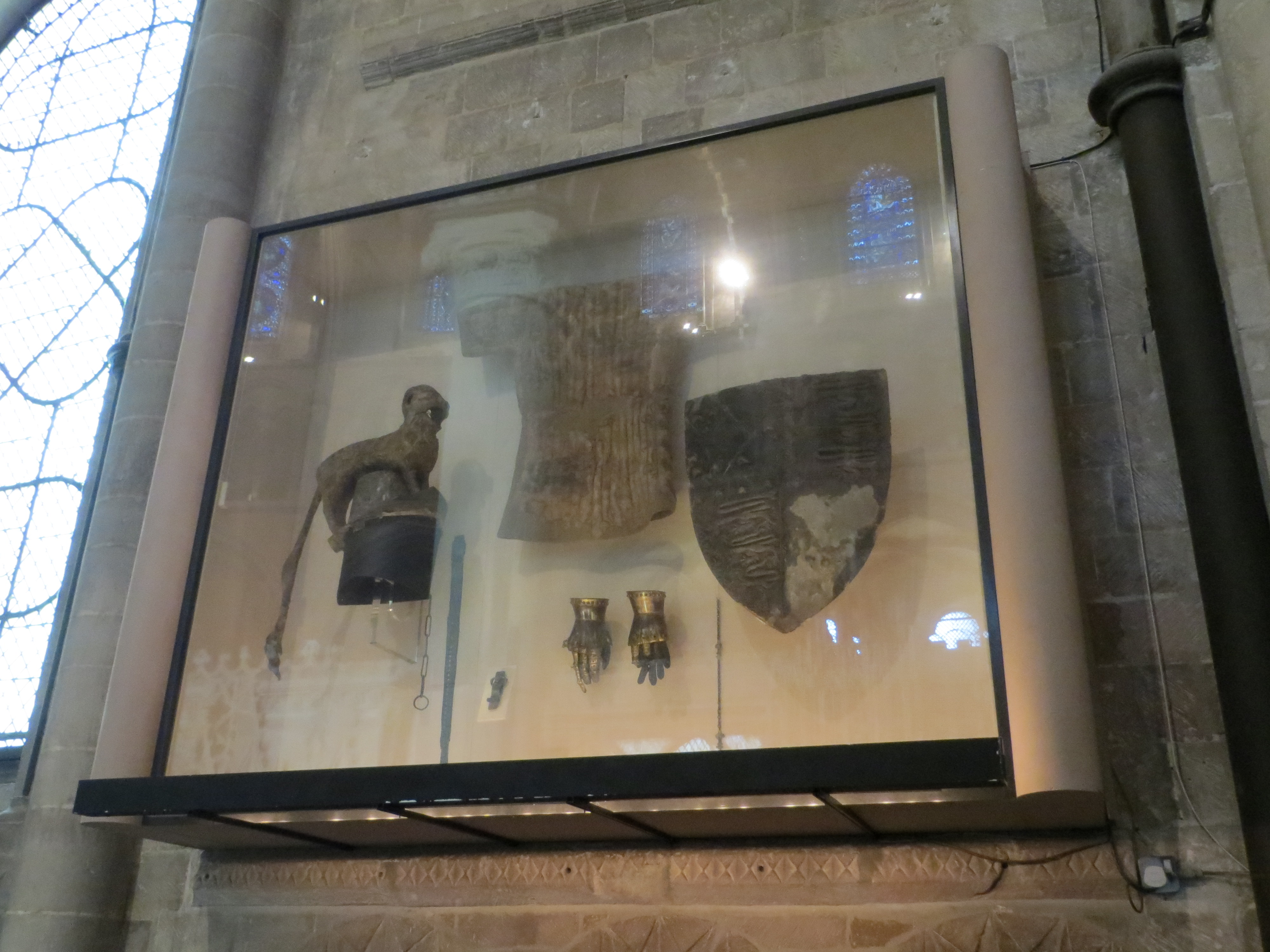 Black Prince Heraldic Achievements in Canterbury Catherdral